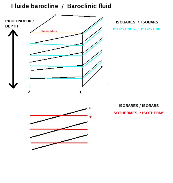 baroclinic fluid layering of pressure and density as well as temperatures